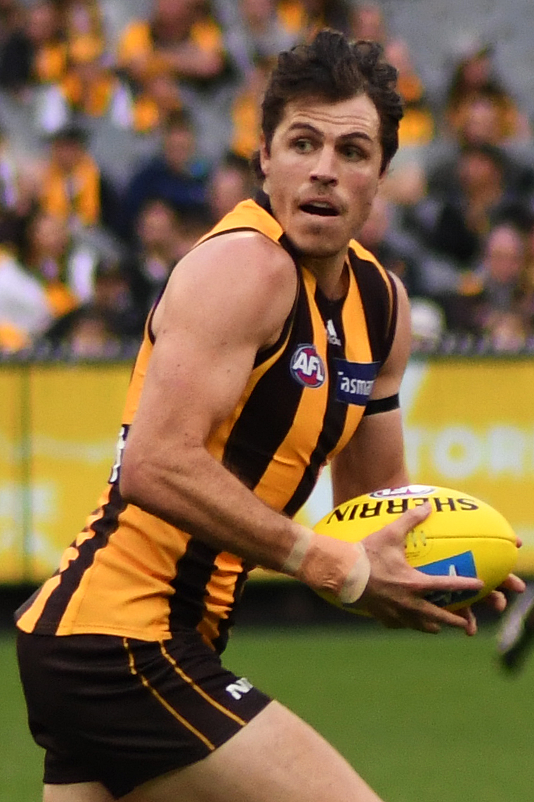 Isaac Smith of Hawthorn during the 2019 AFL round 5 match between Hawthorn and Geelong at the Melbourne Cricket Ground on Monday, 22 April 2019 in Melbourne, Victoria.